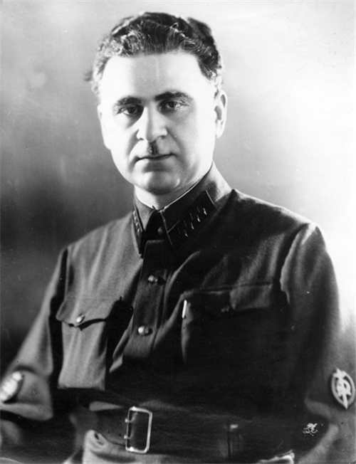 Sergo Goglidze, NKVD general